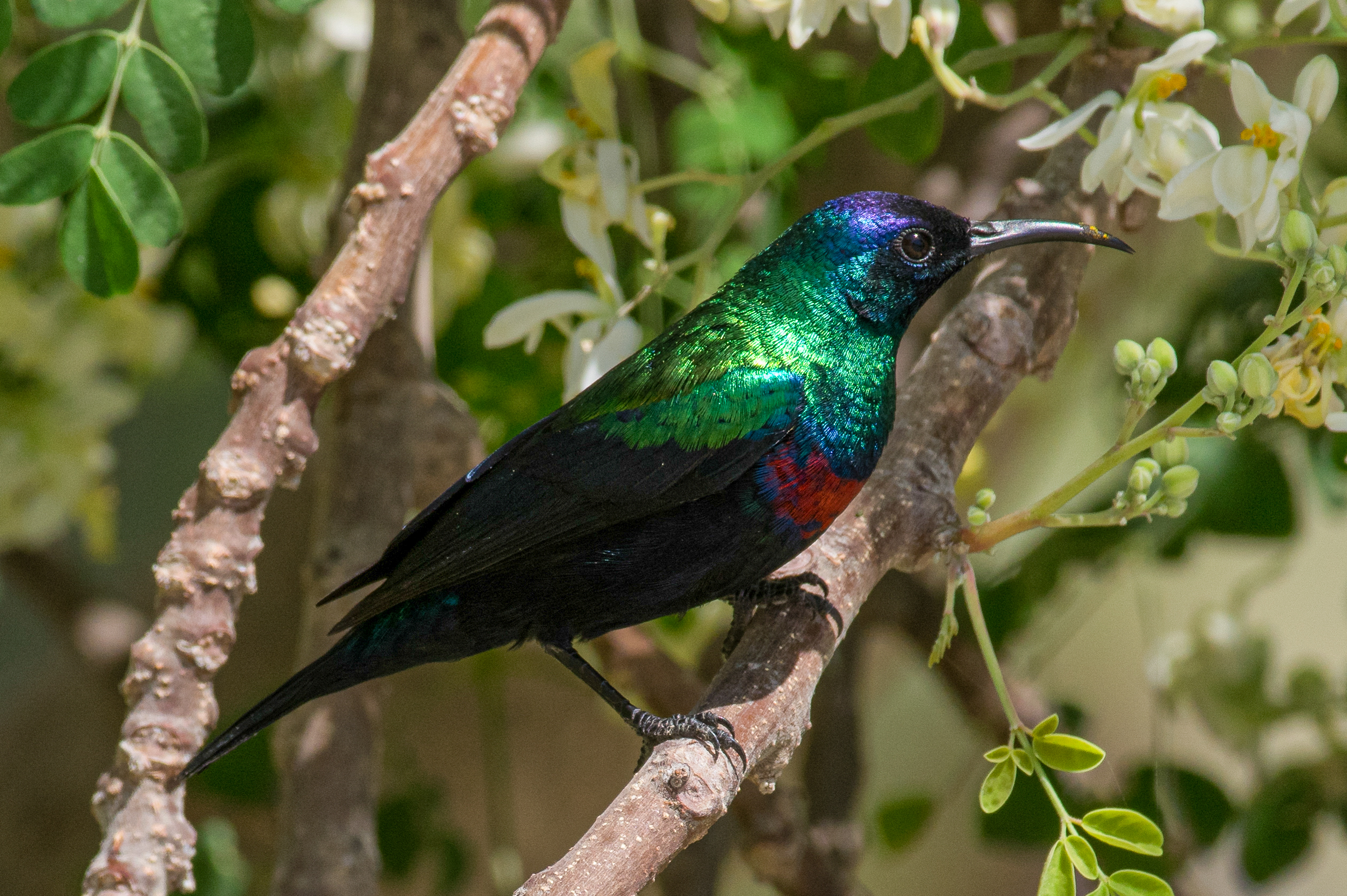 Shining sunbird (Cinnyris habessinicus), Salalah, Oman